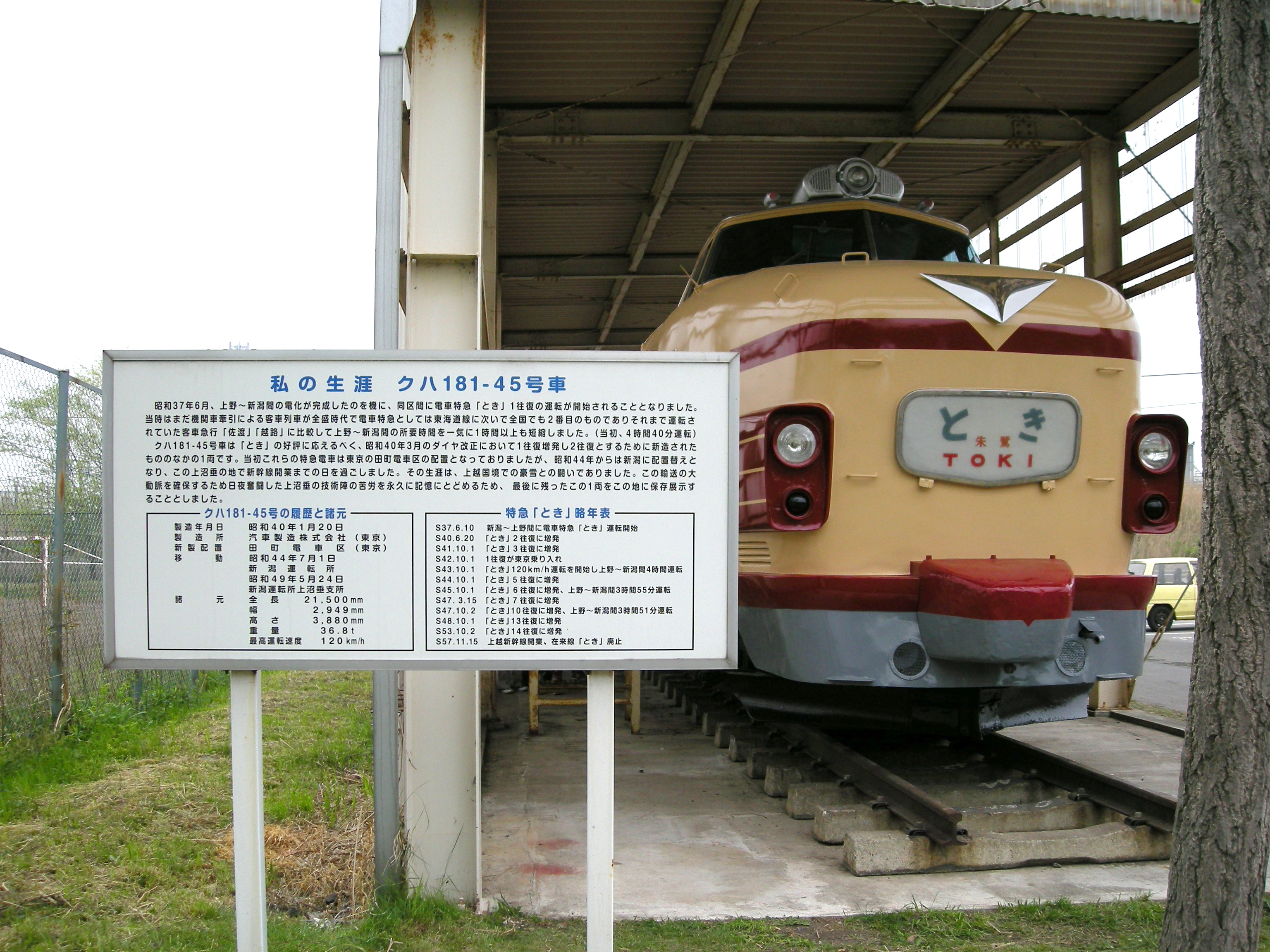 JNR 181 EMU farewell exhibition at Niigata Rolling Stock Center